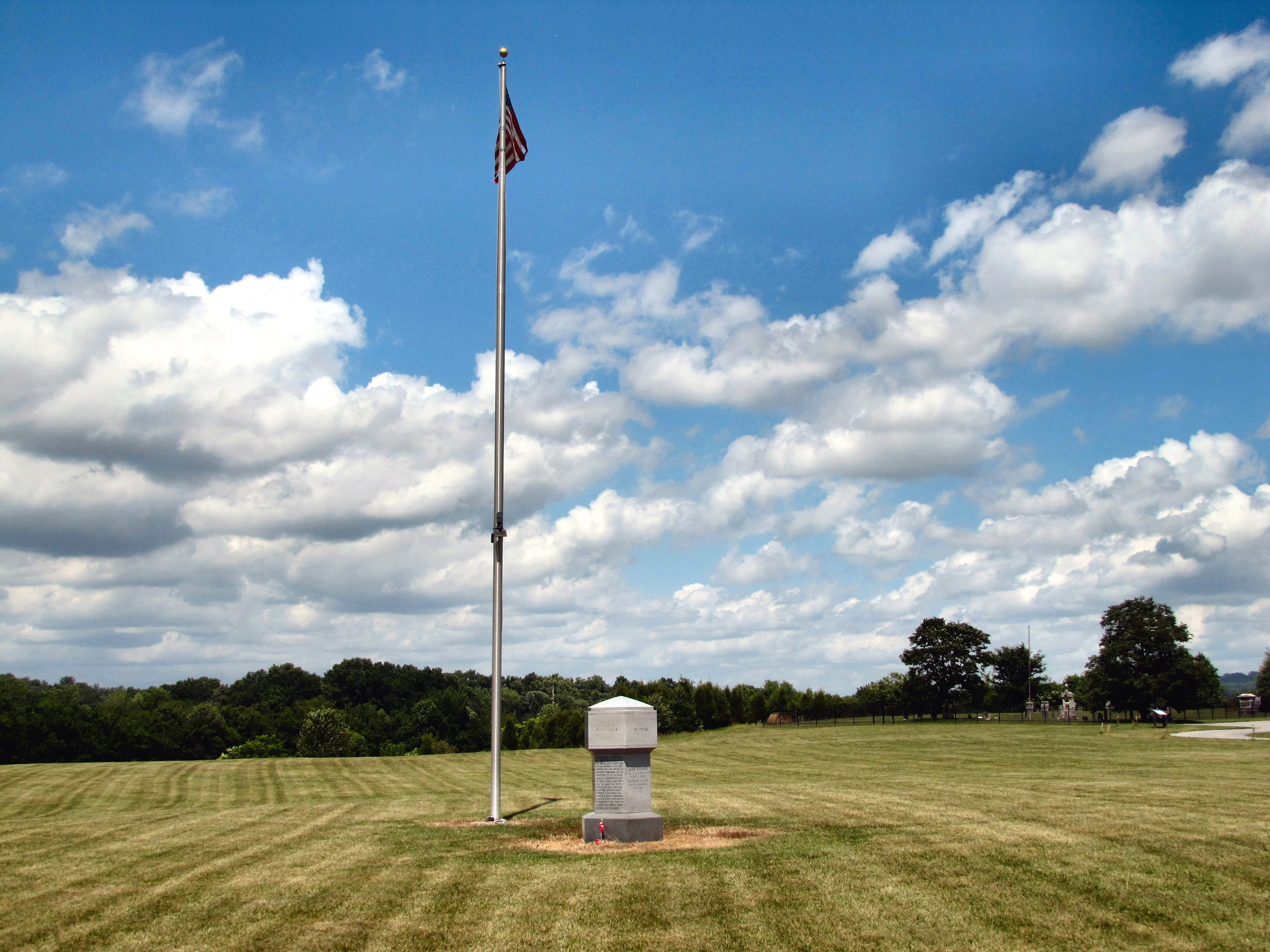 The Pottertown Bridge Burners monument off Pottertown Road near Mosheim, Tennessee, United States. This monument commemorates the pro-Union guerrillas from the area who burned the railroad bridge over nearby Lick Creek on November 8, 1861, as part of a larger plan to make way for a Union Army invasion. The monument has six sides, including one describing the actions of the bridge-burners, and one apiece for each of the participants who were subsequently hanged by Confederate authorities: Henry Harmon, Jacob Harmon, Jacob Hinshaw, Christopher Haun, and Henry Fry. The top rim of the monument reads: "In the hour of their country's peril, they were loyal and true." Jacob and Henry Harmon are buried in the family cemetery in the distance on the right.